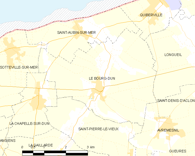 Map of French municipality Le Bourg-Dun